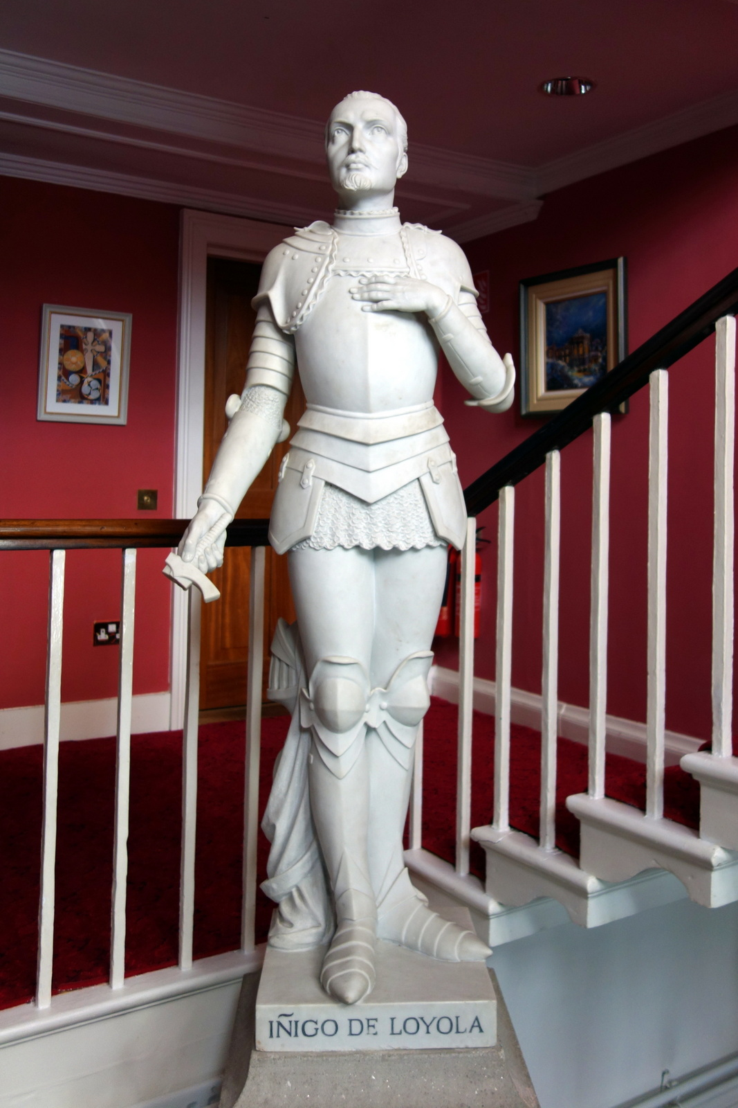 Clongowes Wood College is a voluntary secondary boarding school for boys, located near Clane in County Kildare, Ireland. Founded by the Society of Jesus (Jesuits) in 1814, it is one of Ireland's oldest Catholic schools, and featured prominently in James Joyce's semi-autobiographical novel A Portrait of the Artist as a Young Man. One of five Jesuit schools in Ireland, it had 450 students in 2011/2012 when the fees were €16800 per annum